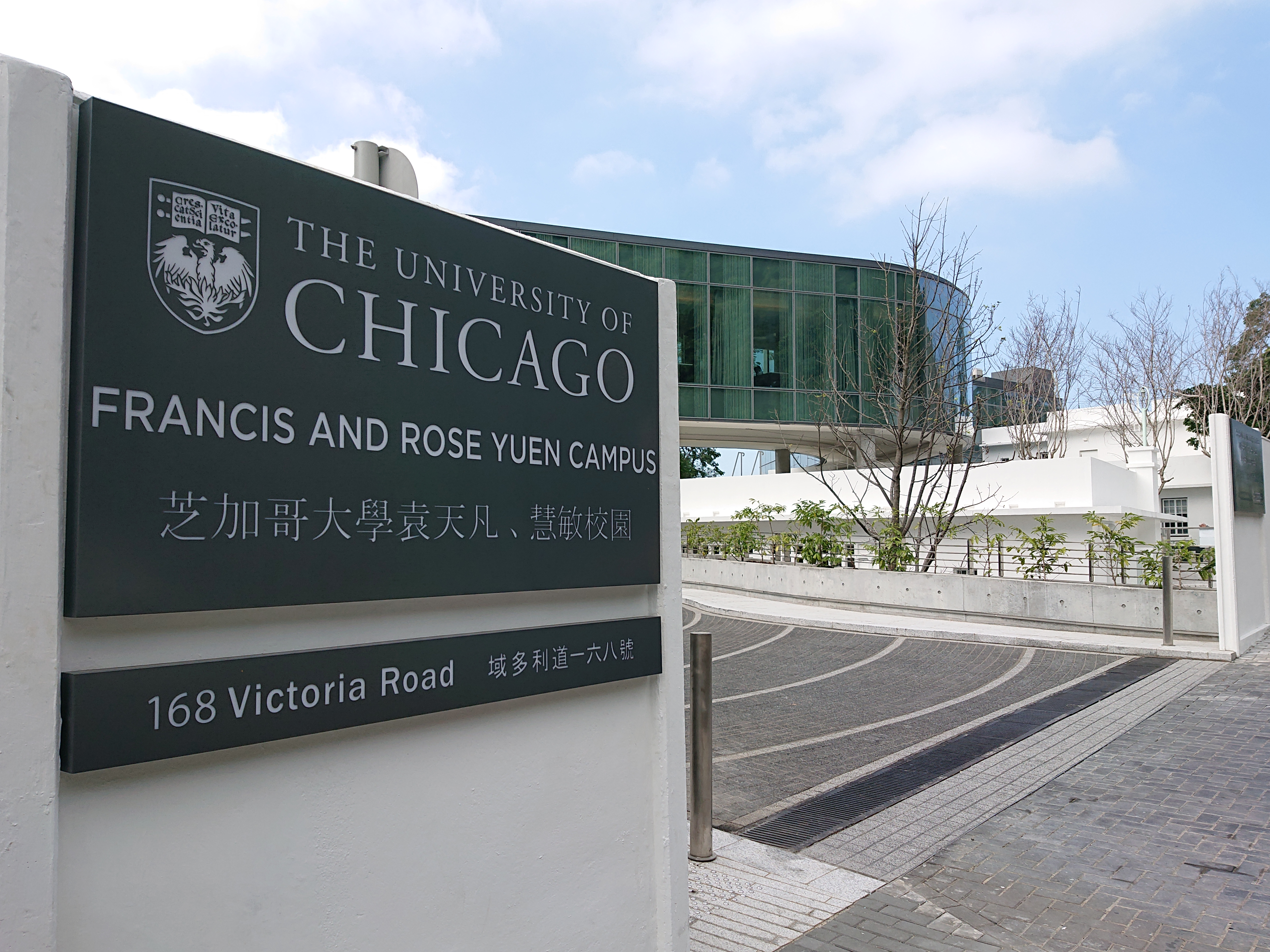 University of Chicago Hong Kong Campus Main Entrance